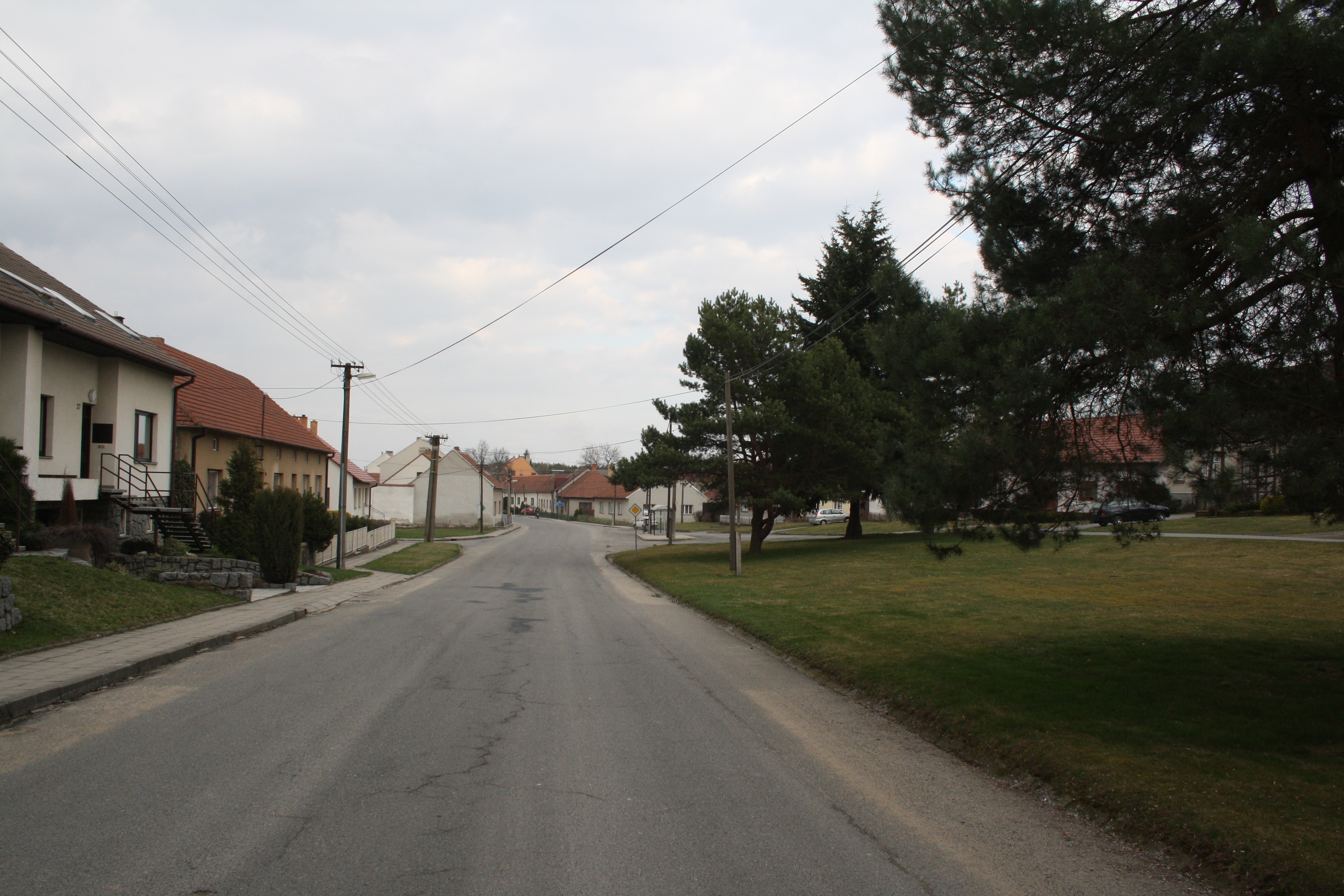 Center square of Studenec, Třebíč District.